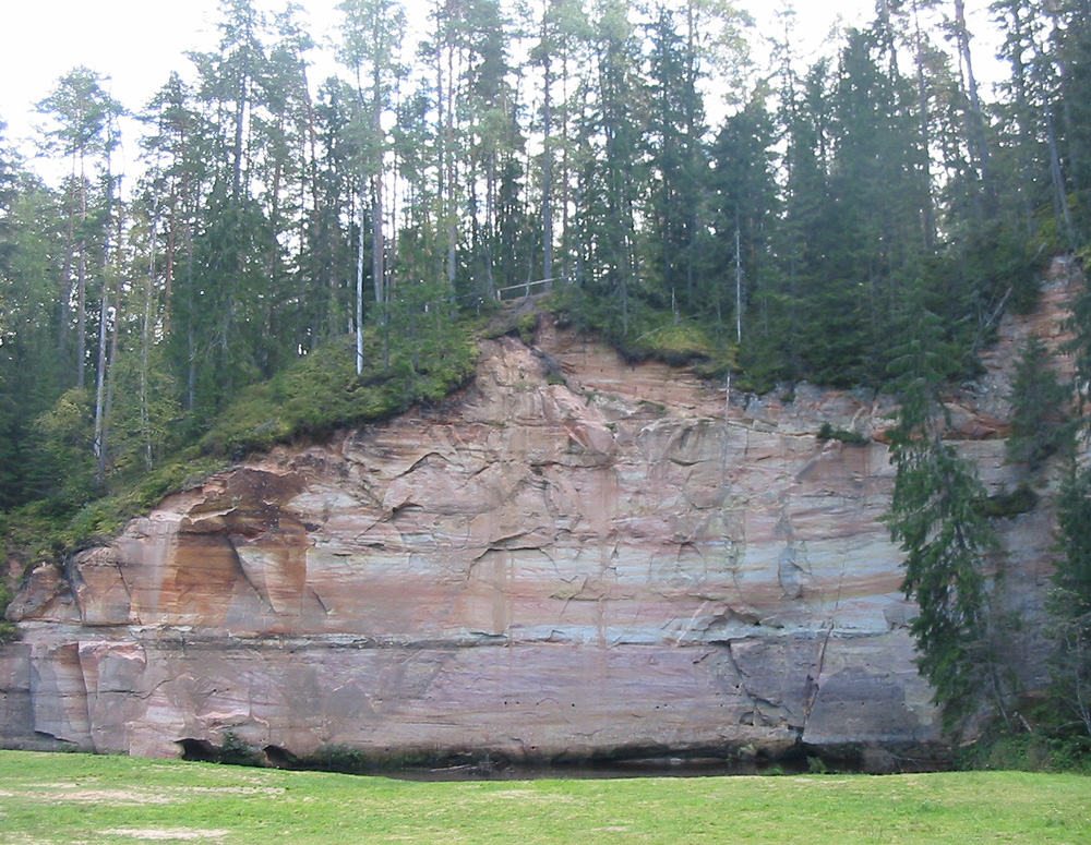 Devonian sandstone at Suur Taevaskoda, Estonia.